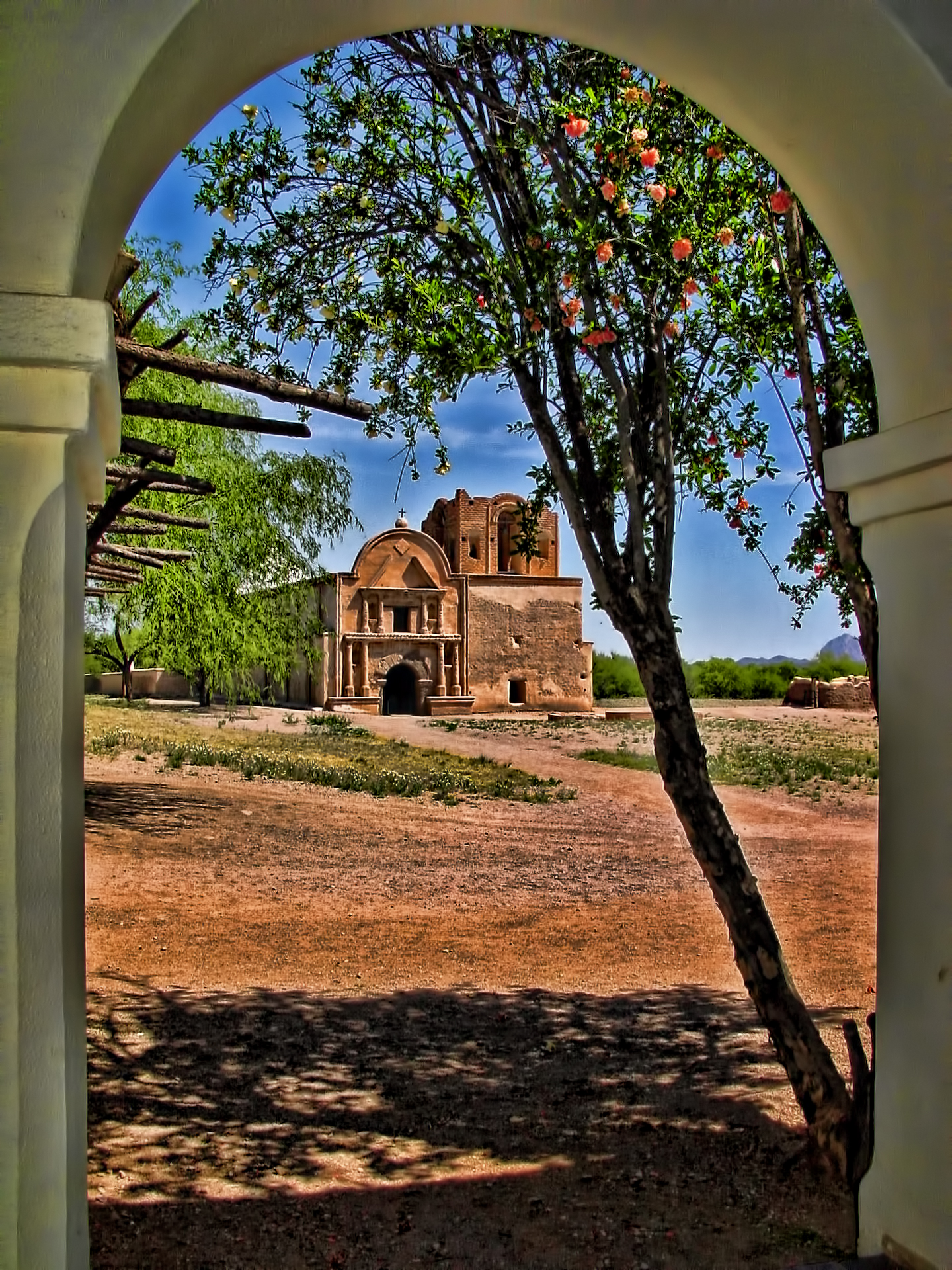 View of Mission San José de Tumacácori — from archway of the Tumacácori Museum at Tumacacori National Monument, in southern Arizona. Located 18 miles (29 km) north of Nogales on Interstate 19.